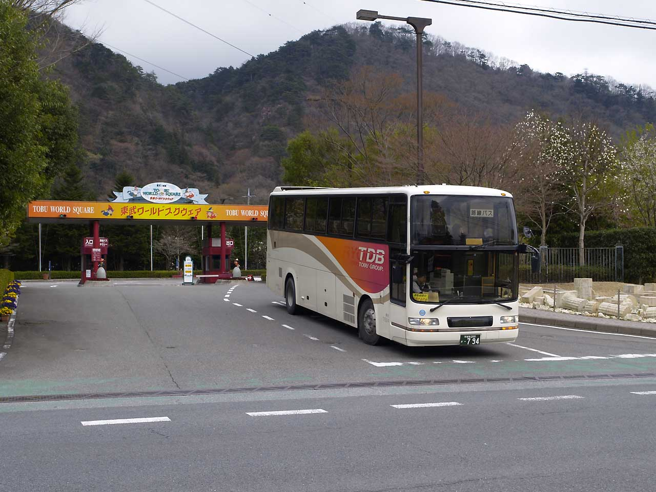 A Nikko Kotsu bus (Tobu Dial Bus) departing from the Tobu World Square theme park in Nikko, Tochigi Prefecture, Japan Model: Hino Selega GJ KC-RU4FSCB License plate: TGU200 KA-794 (former Ryomo Sightseeing Bus)